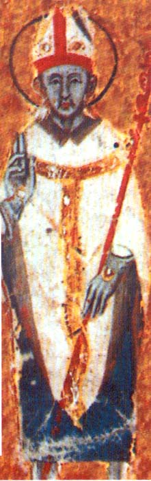 San Massimo di Torino (Maximus of Turin)